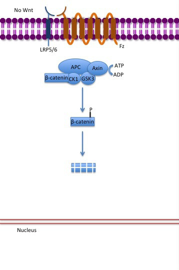 Diagram of the canonical Wnt pathway signaling without Wnt.